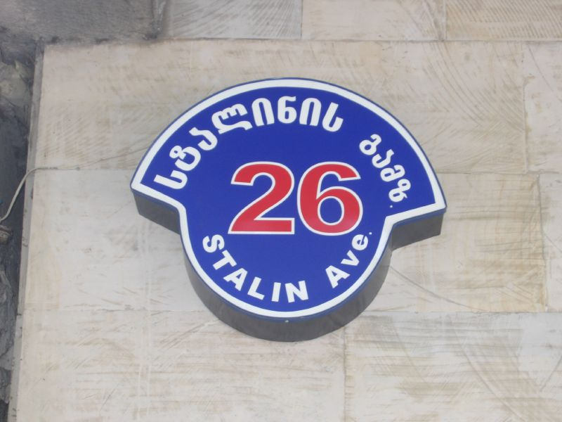 Stalin Ave., Gori.